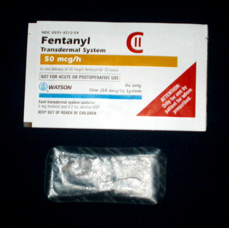 Fentanyl Transdermal System patch, 50 micrograms dose.